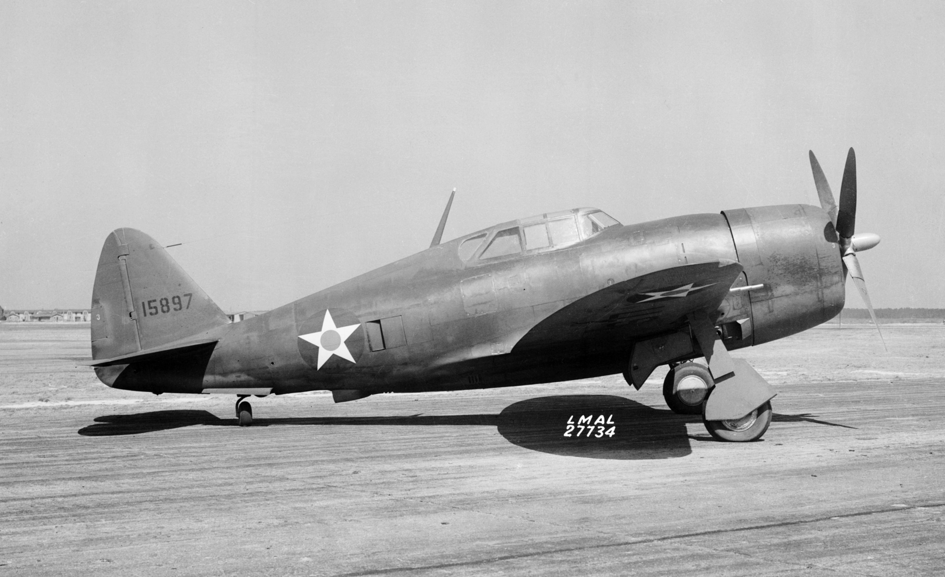 The Republic P-47B Thunderbolt was one of the great fighters used by the U. S. Army Air Force in World War II, and crews praised its ability to absorb punishment. This P-47B (s/n 41-5897) was used by NACA engineers to study the horizontal tail loads experienced by a fighter during abrupt maneuvers.